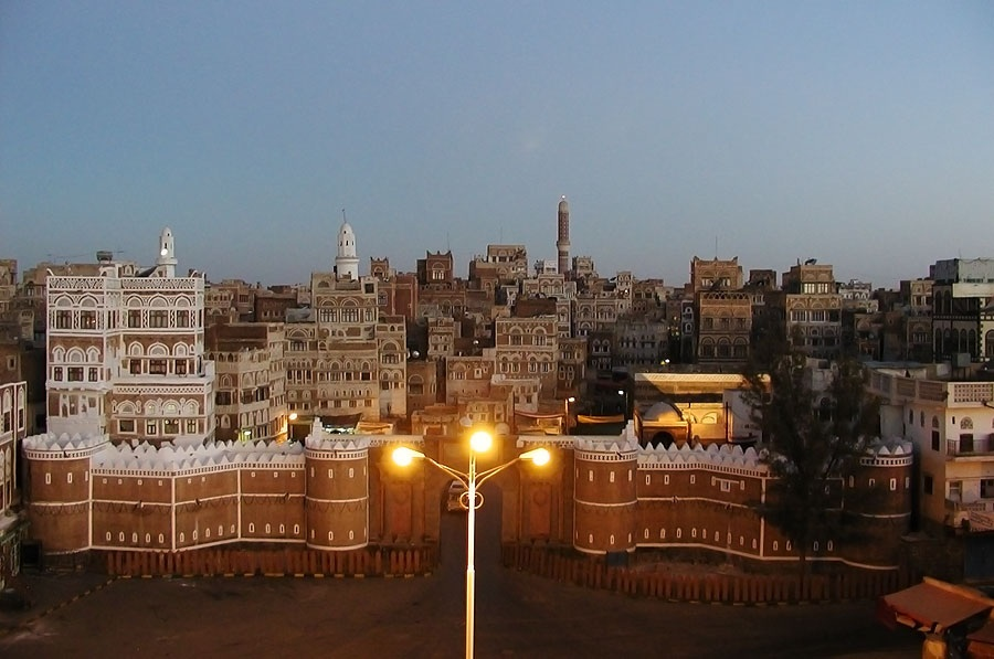 Yemen. Sana'a. Two white minarets on the left side are Minarets of Great Mosque in Sana'a.